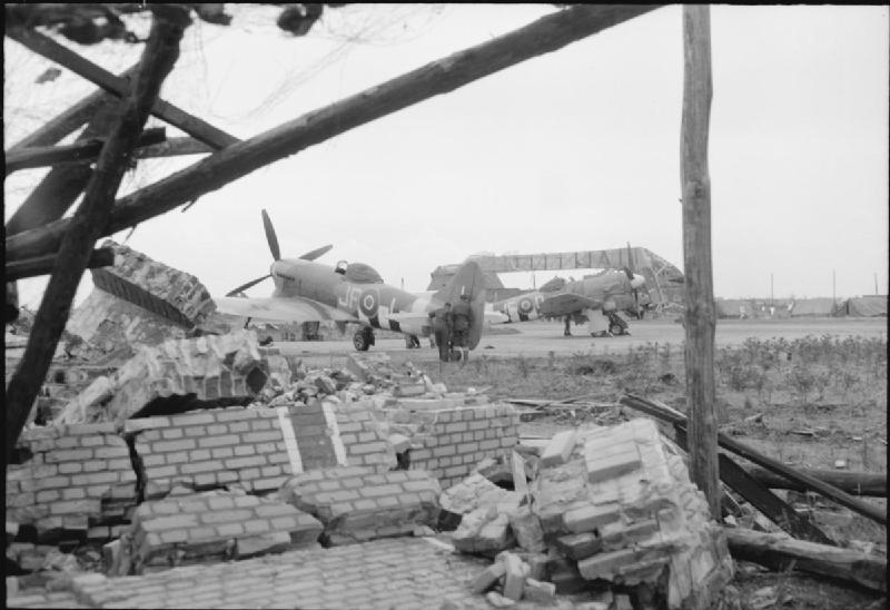 Royal Air Force- 2nd Tactical Air Force, 1943-1945. Viewed from a wrecked German hangar, two Hawker Tempests of No. 3 Squadron RAF receive attention from ground crew in a dispersal at B80/Volkel, Holland.